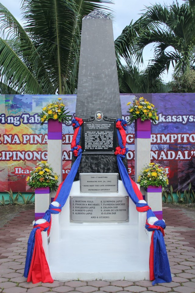 historical marker for the burial site of the seventeen martyrs of koronadal in Koronadal Central 1 Elementary School